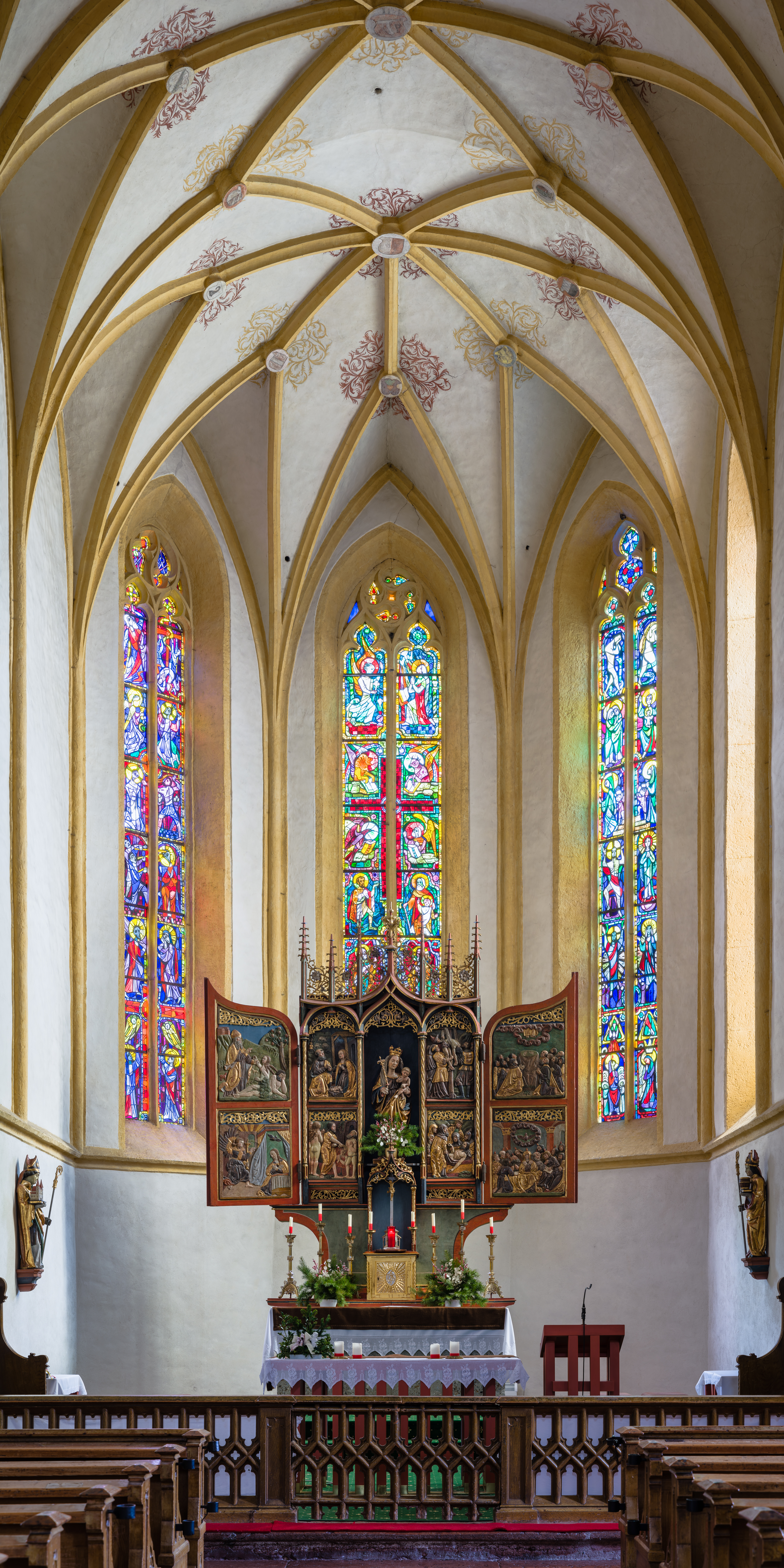 Interior and high altar of the parish church St. Cyriak in Pfarrwerfen, federal state of Salzburg, Austria